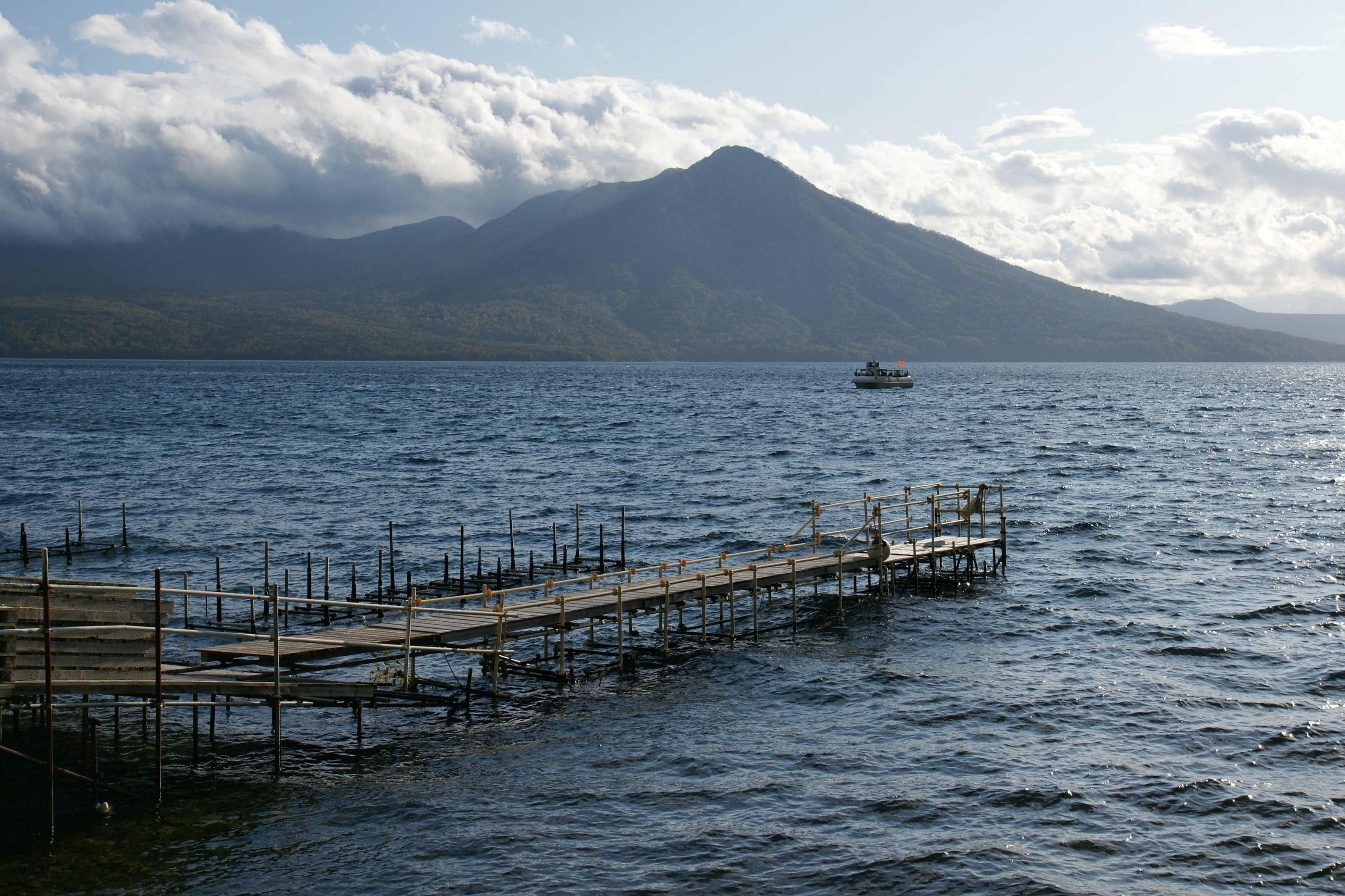 Mt. Fuppushi-dake view from Lake Shikotsu, Chitose, Hokkaido prefecture, Japan